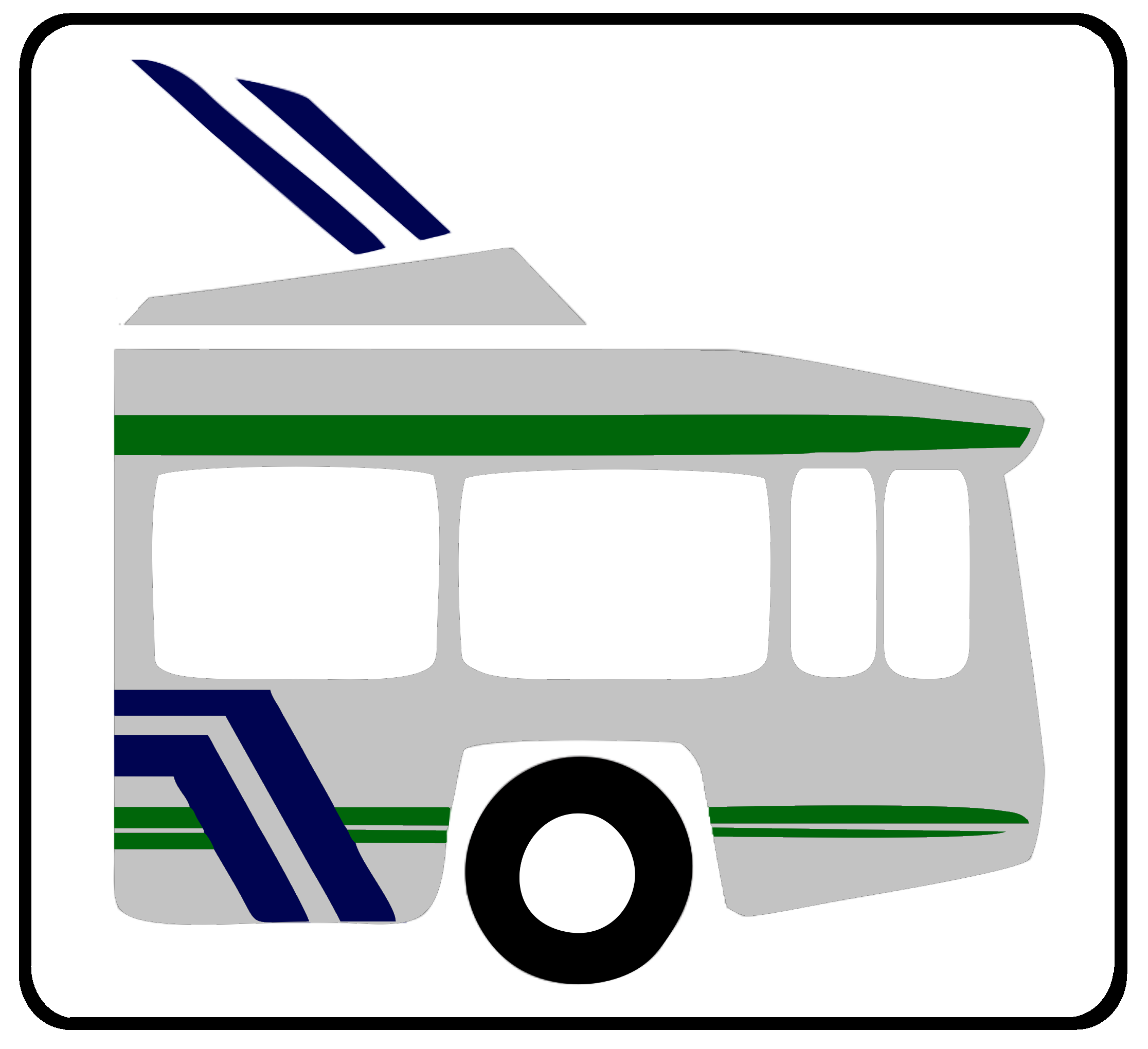 Parada Trolebus